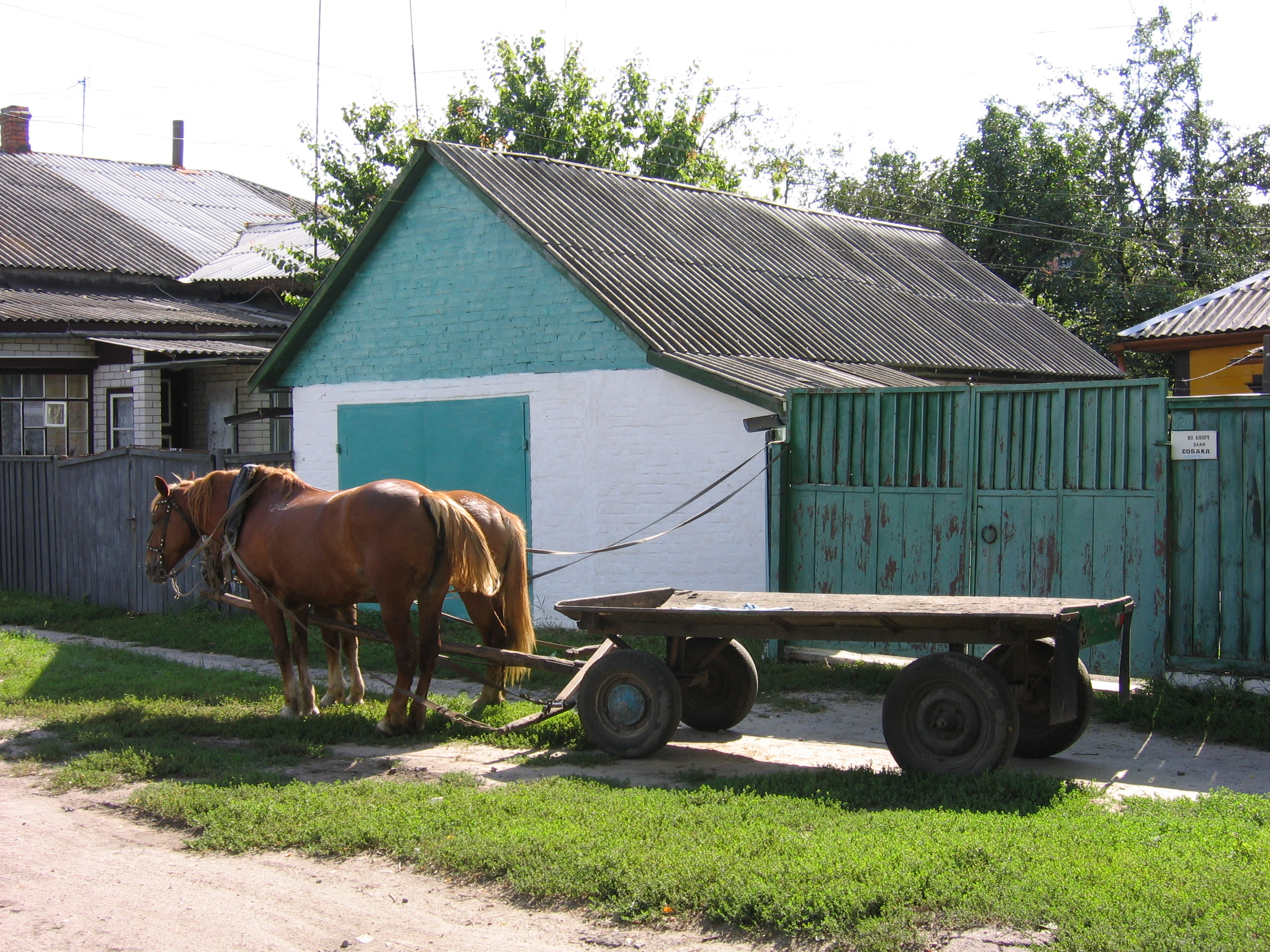 Horse and carriage in Nizhyn, Ukraine